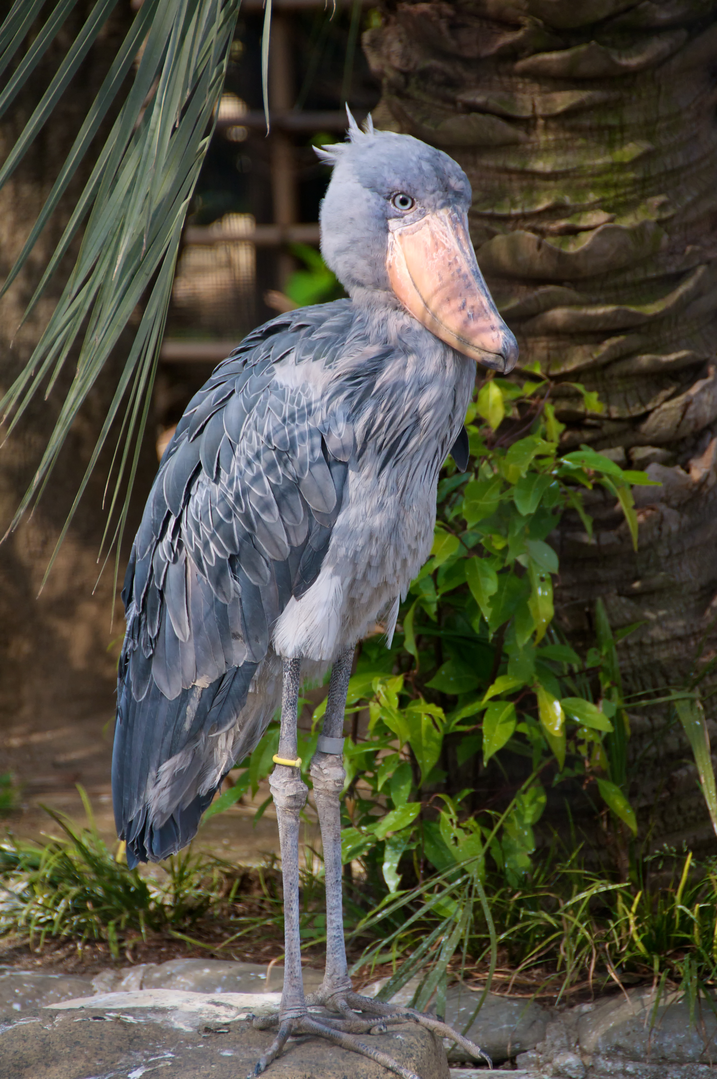 Shoebill at Ueno Zoo, Tokyo, Japan.